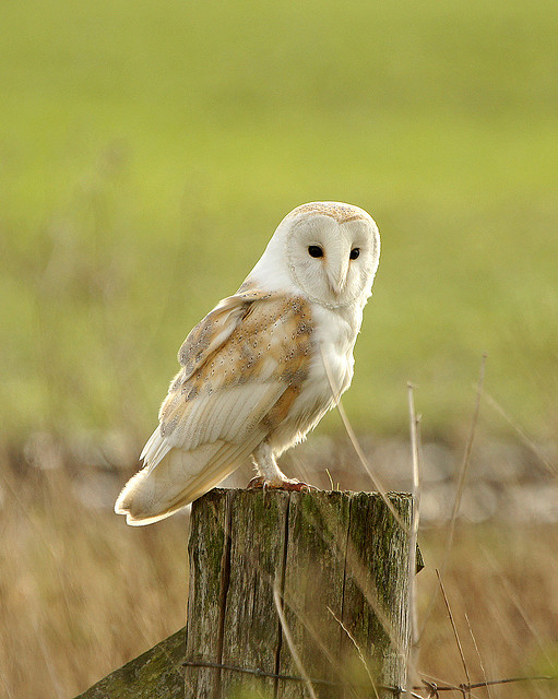 Barn Owl Tyto alba, Isle of Sheppey, Kent, UK